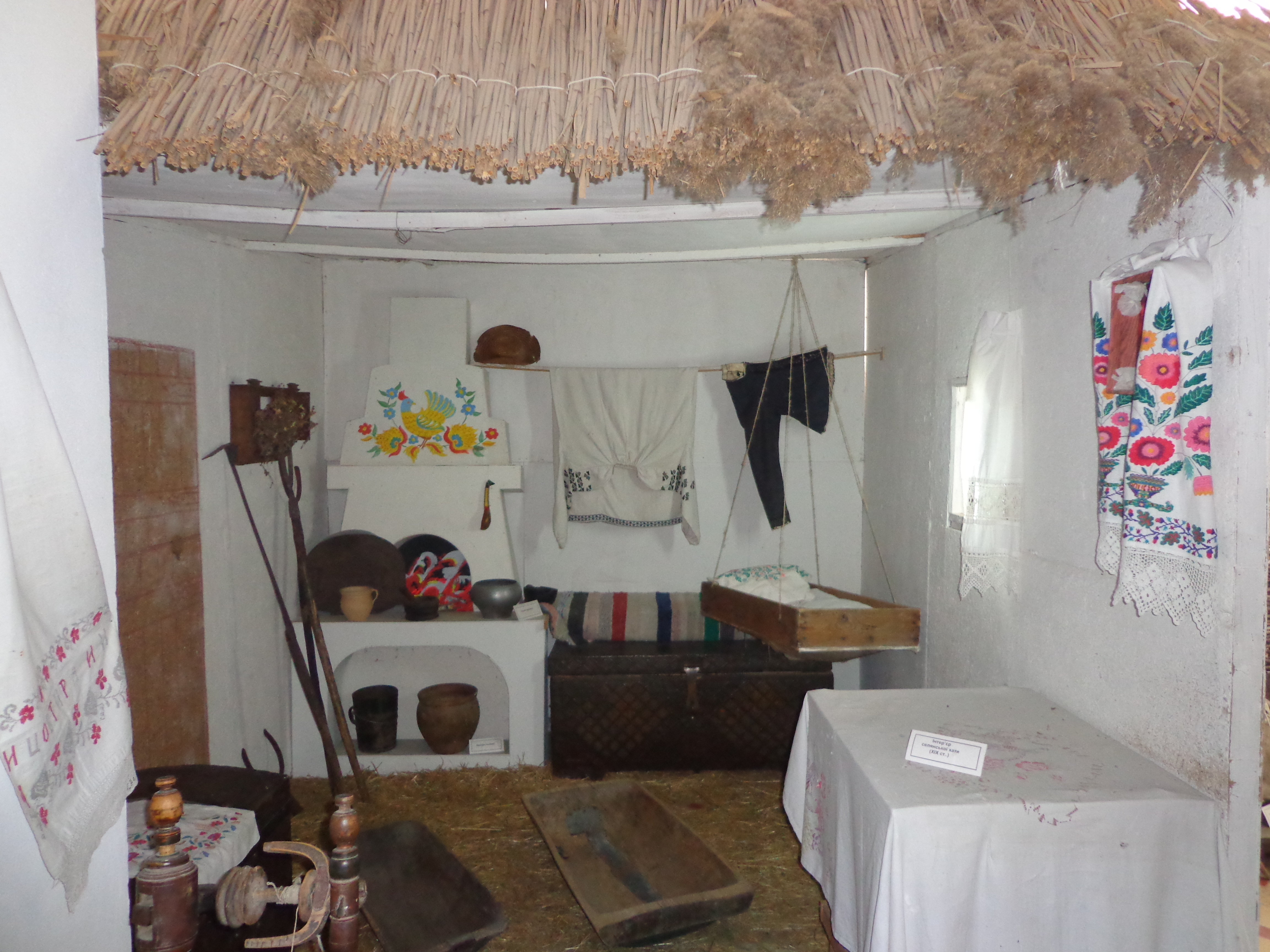 Ukrainian cabin of 19th century in Melitopol Museum, Melitopol, Ukraine